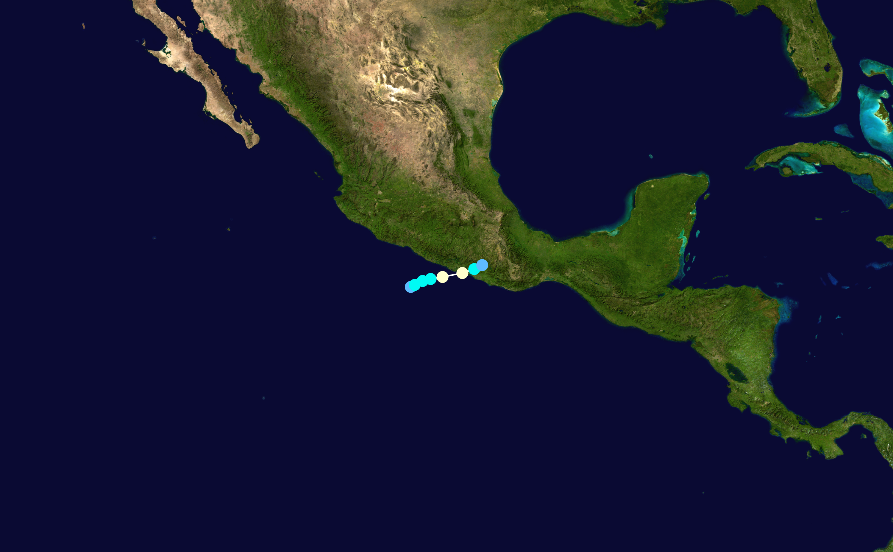 Track map of Hurricane Max of the 2017 Pacific hurricane season. The points show the location of the storm at 6-hour intervals. The colour represents the storm's maximum sustained wind speeds as classified in the Saffir–Simpson scale (see below), and the shape of the data points represent the nature of the storm, according to the legend below. Saffir–Simpson scale Tropical depression≤38 mph≤62 km/h Category 3111–129 mph178–208 km/h Tropical storm39–73 mph63–118 km/h Category 4130–156 mph209–251 km/h Category 174–95 mph119–153 km/h Category 5≥157 mph≥252 km/h Category 296–110 mph154–177 km/h Unknown Storm type Tropical cyclone Subtropical cyclone Extratropical cyclone / Remnant low / Tropical disturbance / Monsoon depression